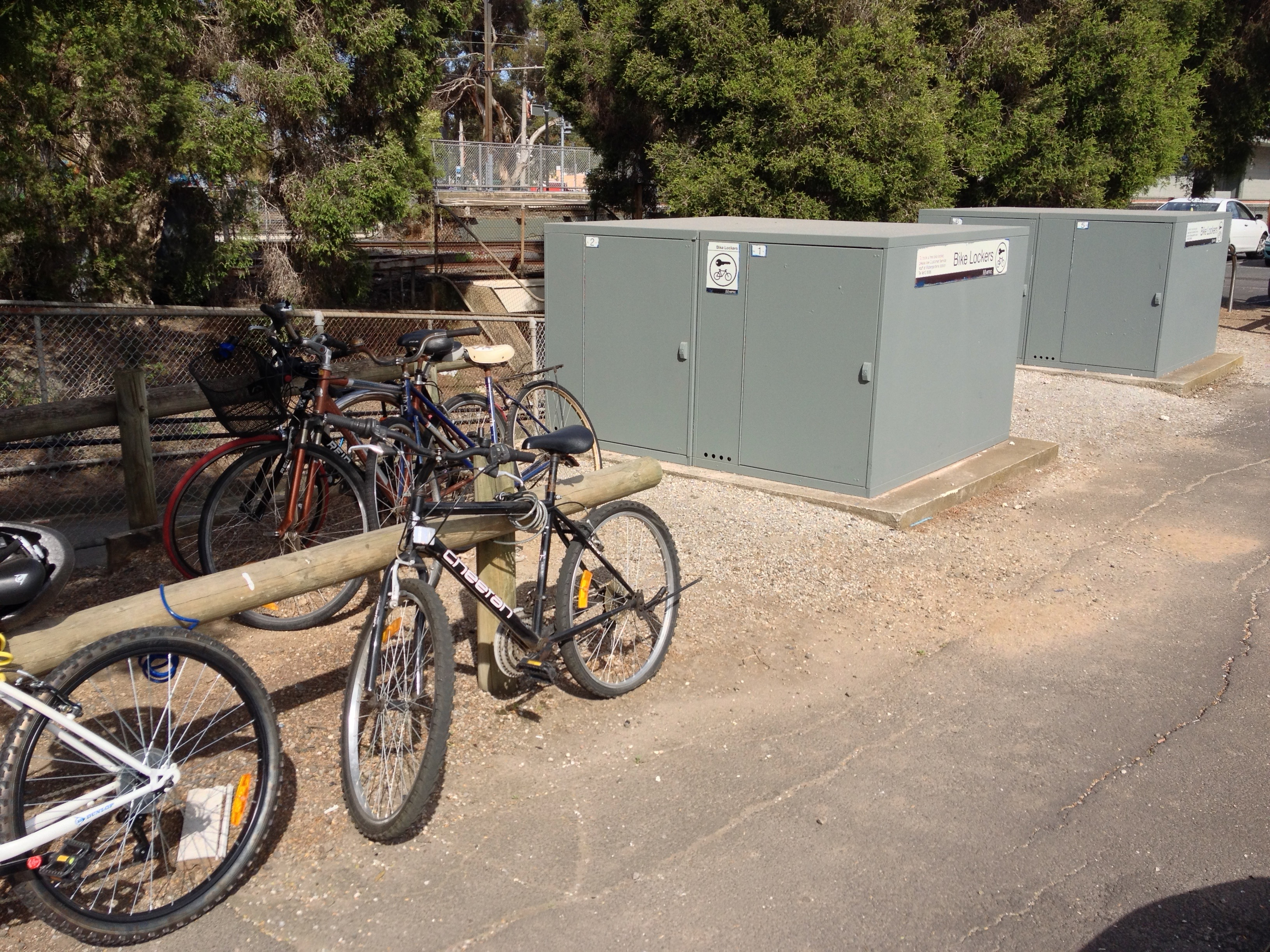 Melbourne's train travellers are often forced to park their bicycles any way they can.